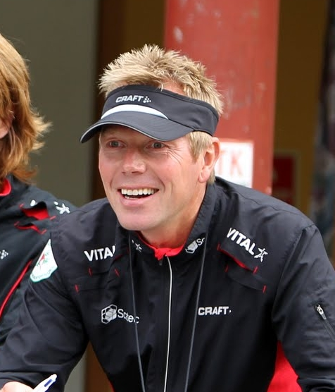 Petter Thoresen (Norwegian national team coach)